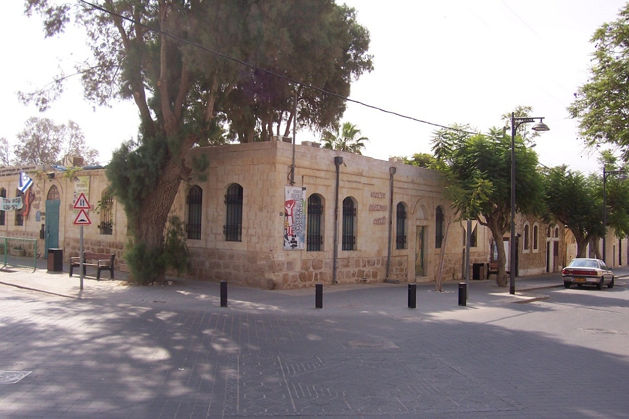 Architecture of Israel